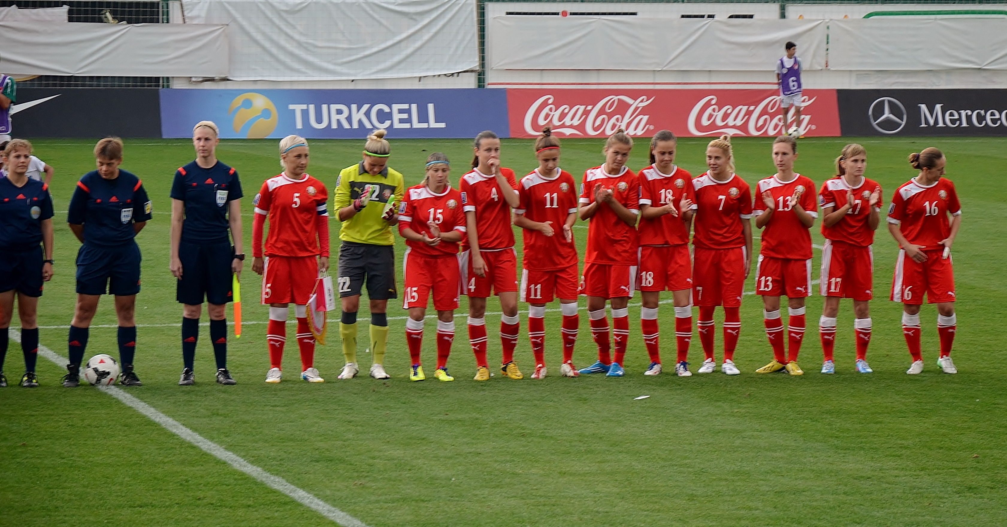 Belarus women's national association football team in the away match of 2015 FIFA Women's World Cup qualification – UEFA Group 6 against Turkey on September 17, 2014